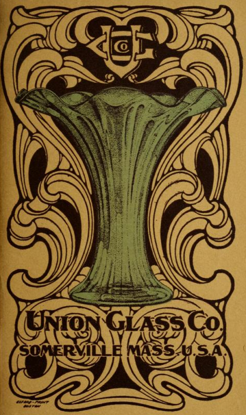 Cover of catalog for Union Glass Co., Somerville, Mass., USA